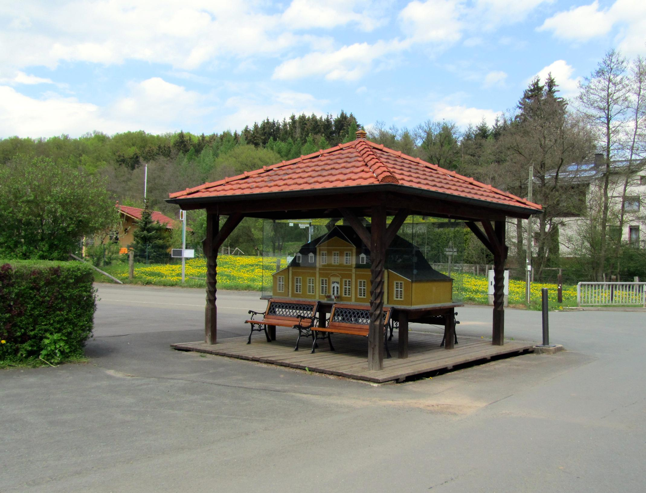 Germany / Hesse: Cycle Way "Ederseebahn-Radweg": small Castle in Selbach